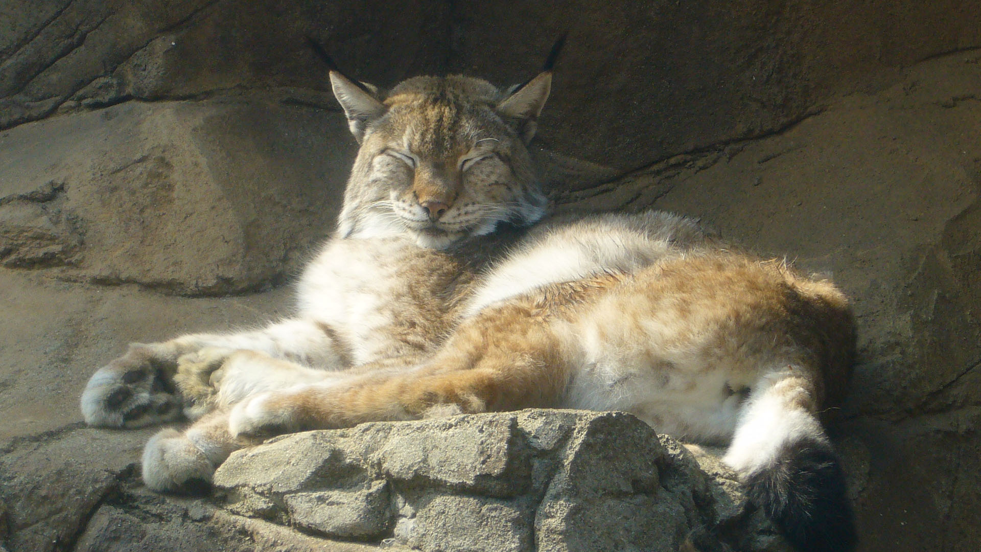 Felis Lynx in the Kobe Oji Zoo, Kobe, Japan